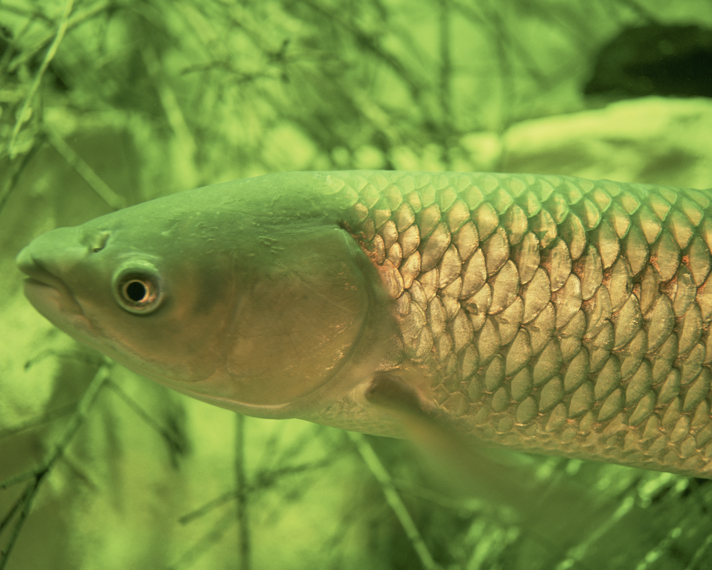 Title: Grass Carp Alternative Title: Ctenopharyngodon idella Creator: Engbretson, Eric Source: WO-Engbretson-5743 Publisher: U.S. Fish and Wildlife Service Contributor: DIVISION OF PUBLIC AFFAIRS Language: EN - ENGLISH Rights: (public domain) Audience: (general) Subject: Engbretson, Fishes, Fish, Animals, Animal, 5743